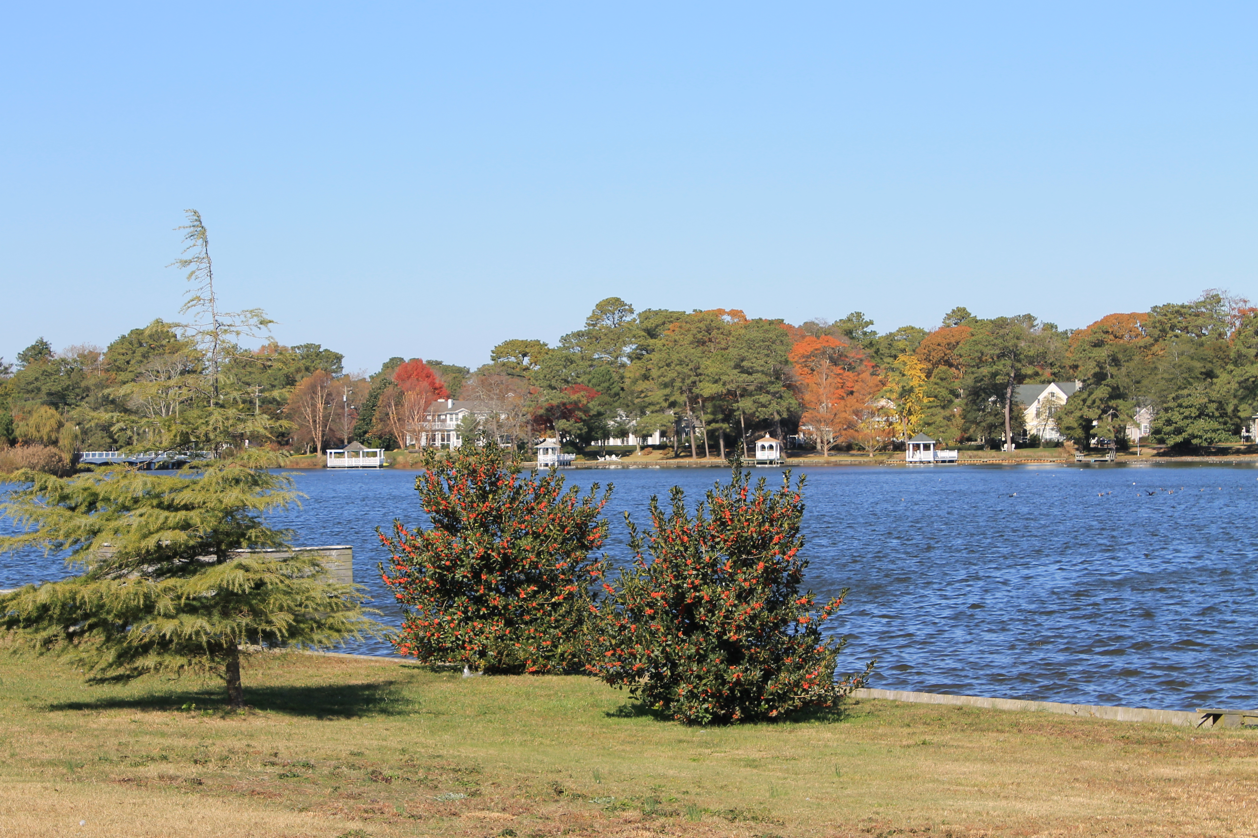 Rehoboth Beach, Delaware